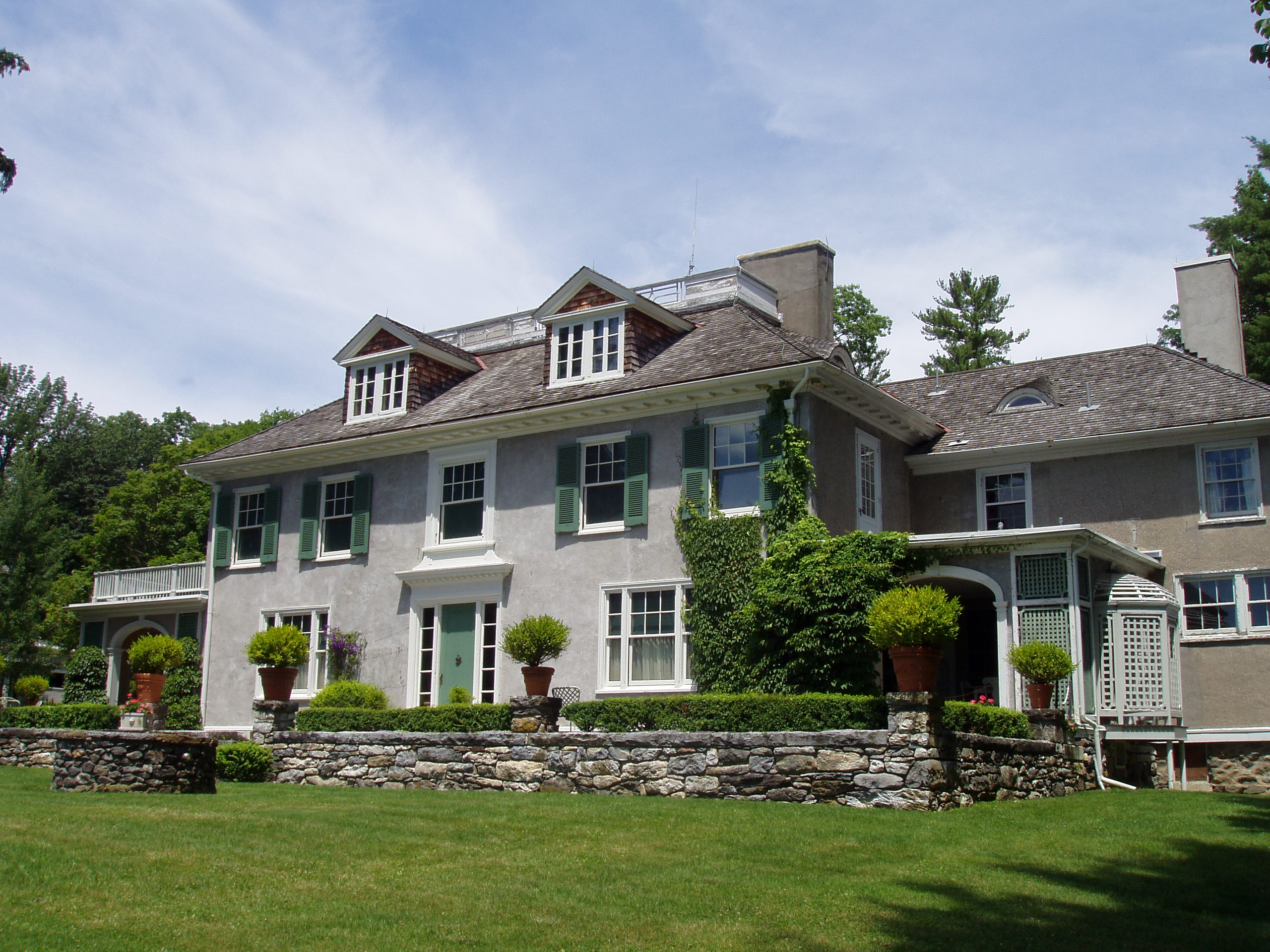 Chesterwood, summer estate of American sculptor Daniel Chester French, in Stockbridge, Massachusetts, USA. House, south facade.